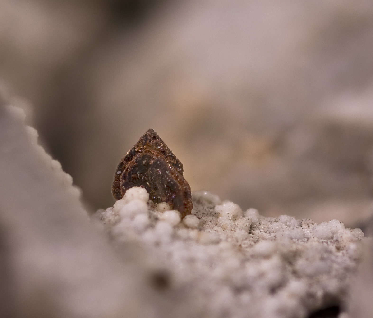 Fayalite with Tridymite balls on Cristobalite. Coso Hot Springs, Coso District (New Coso District), Inyo Co., California, USA - (XX1mm)